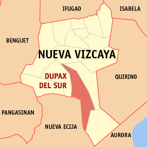 Map of Nueva Vizcaya showing the location of Dupax del Sur